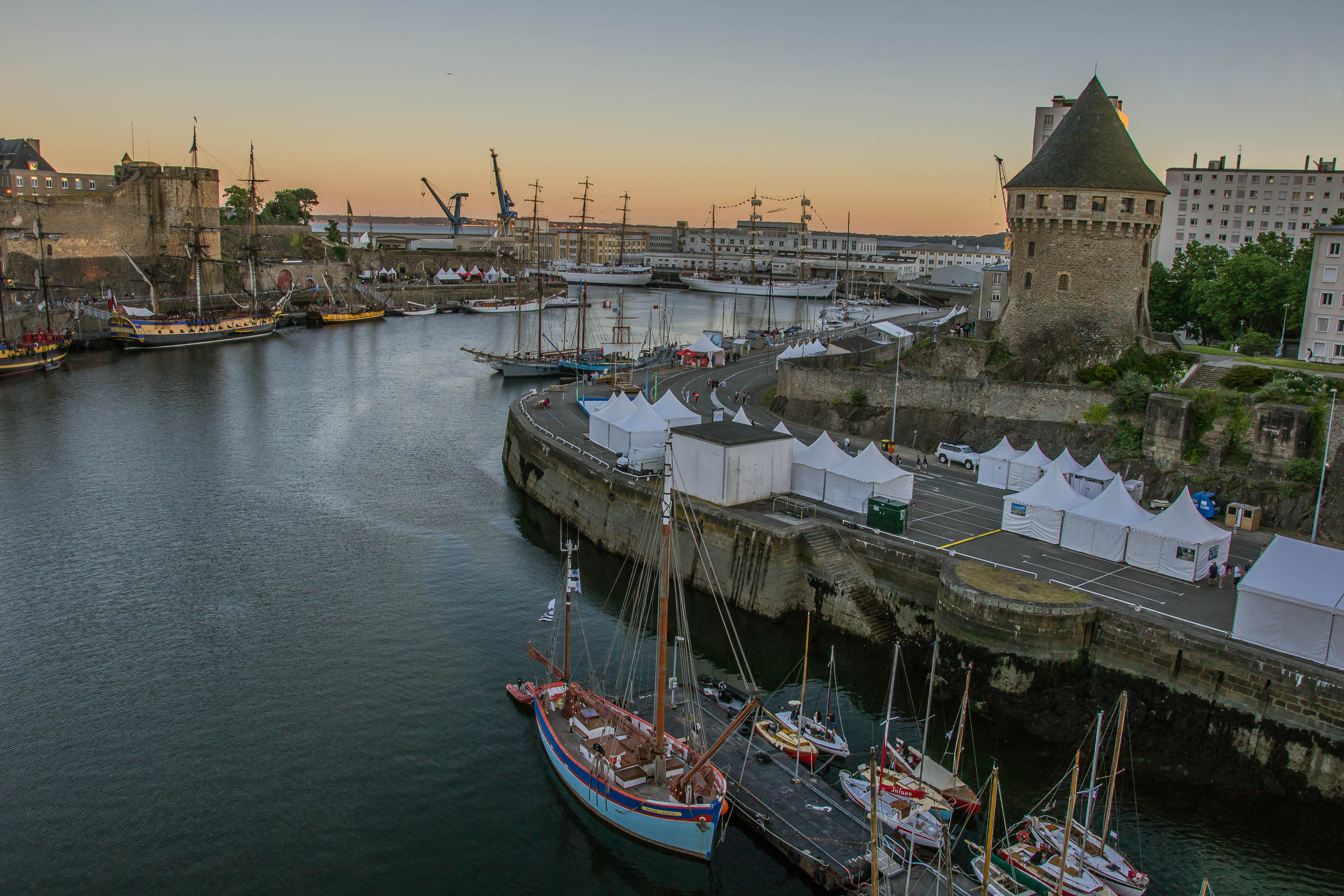 Brest 2016